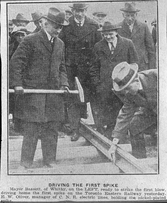 This image is taken of a newspaper clipping from 31 October 1923. It shows the first spike being driven on the Toronto and Eastern Railway at its starting point in Whitby on the south side of Mary Street.